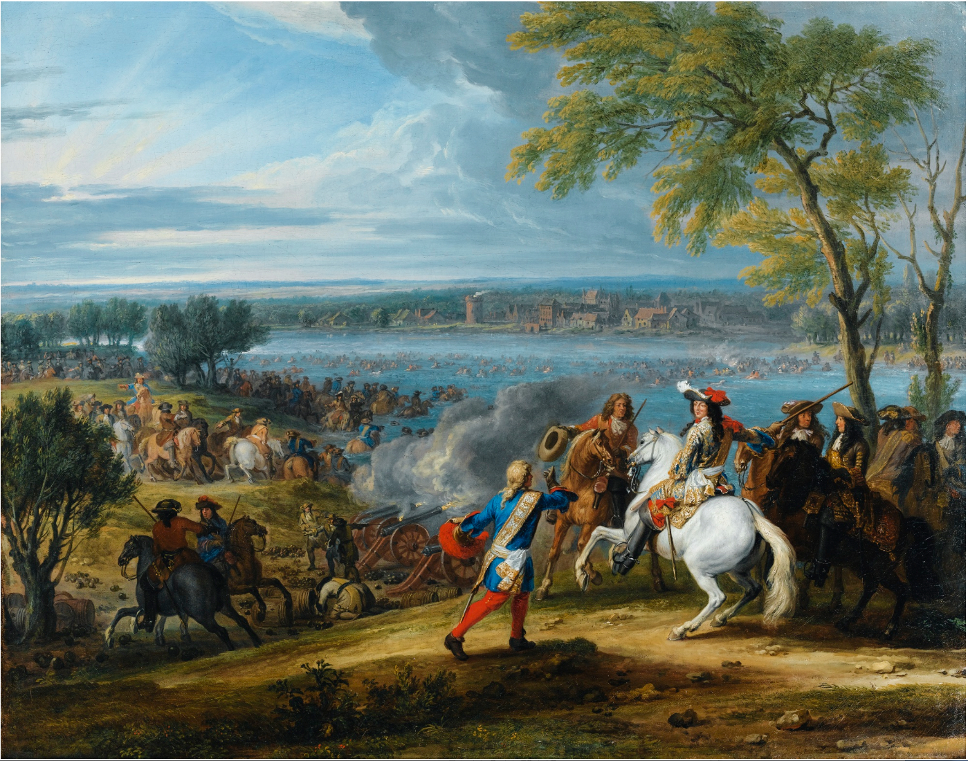 King Louis XIV of France with his army crossing the Rhine at Lobith to conquer the Netherlands, 12 June 1672